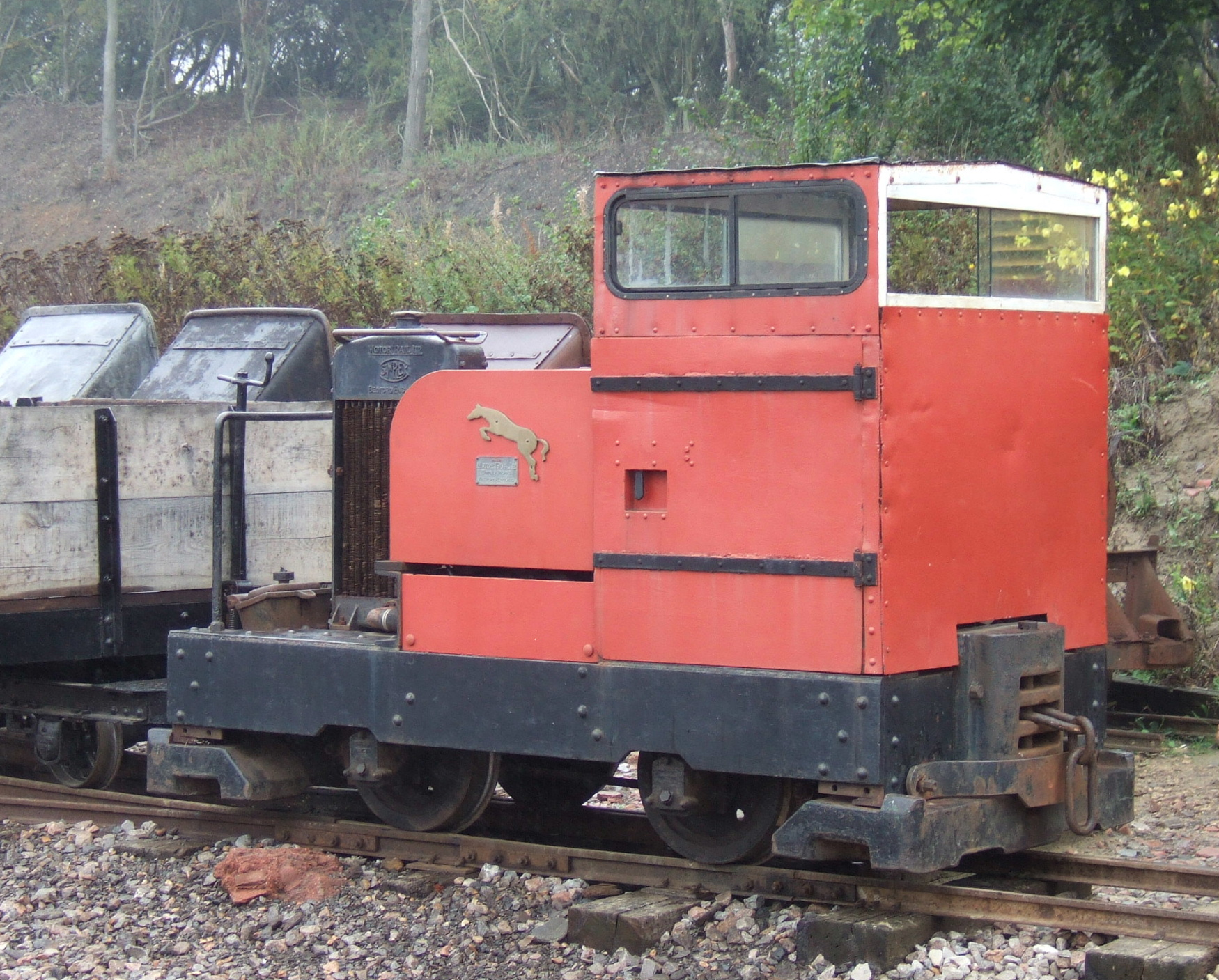 4wDM Simplex built by Motor Rail, seen at the Stonehenge Workshops of the Leighton Buzzard Narrow Gauge Railway. 11th September 2005 Photographer - A.M.Hurrell Camera - Fuji FinePix F10 Modified - Trimmed and file size reduced using Finepix Software